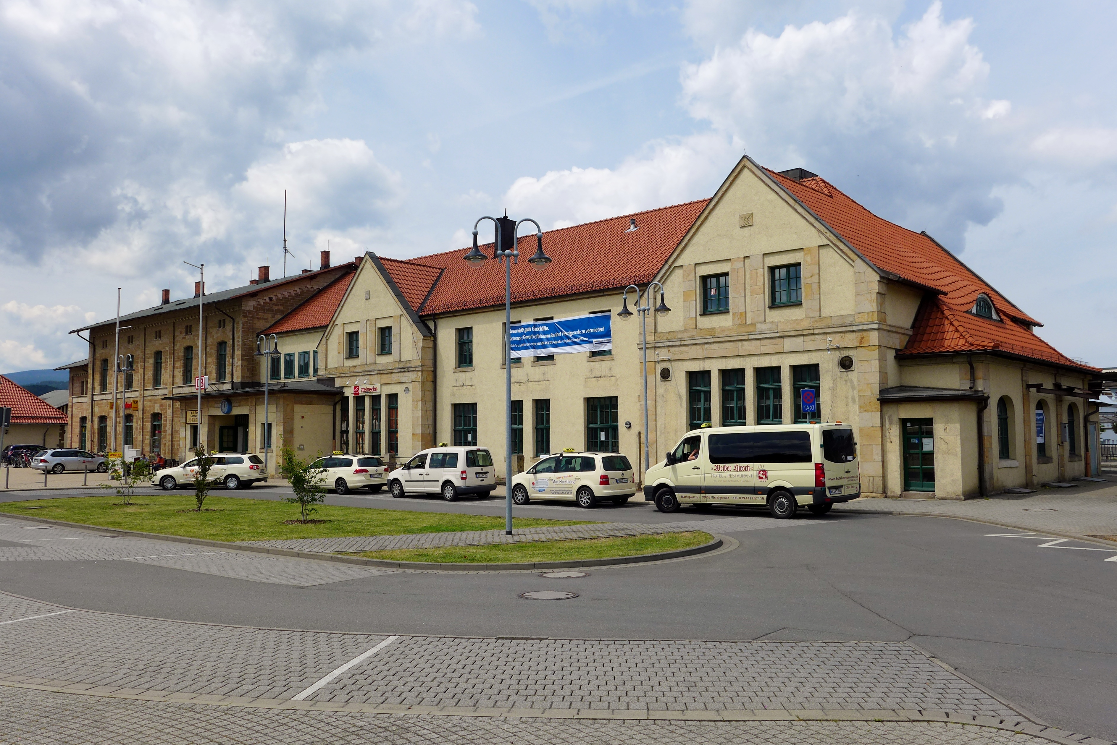 View of the main station building at Wernigerode railway station, Wernigerode, Germany.